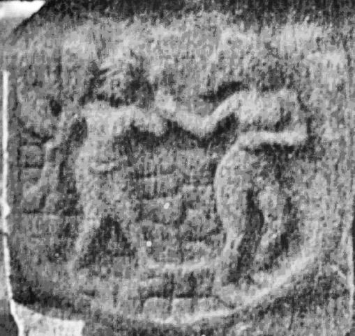 Bodh Gaya Jataka